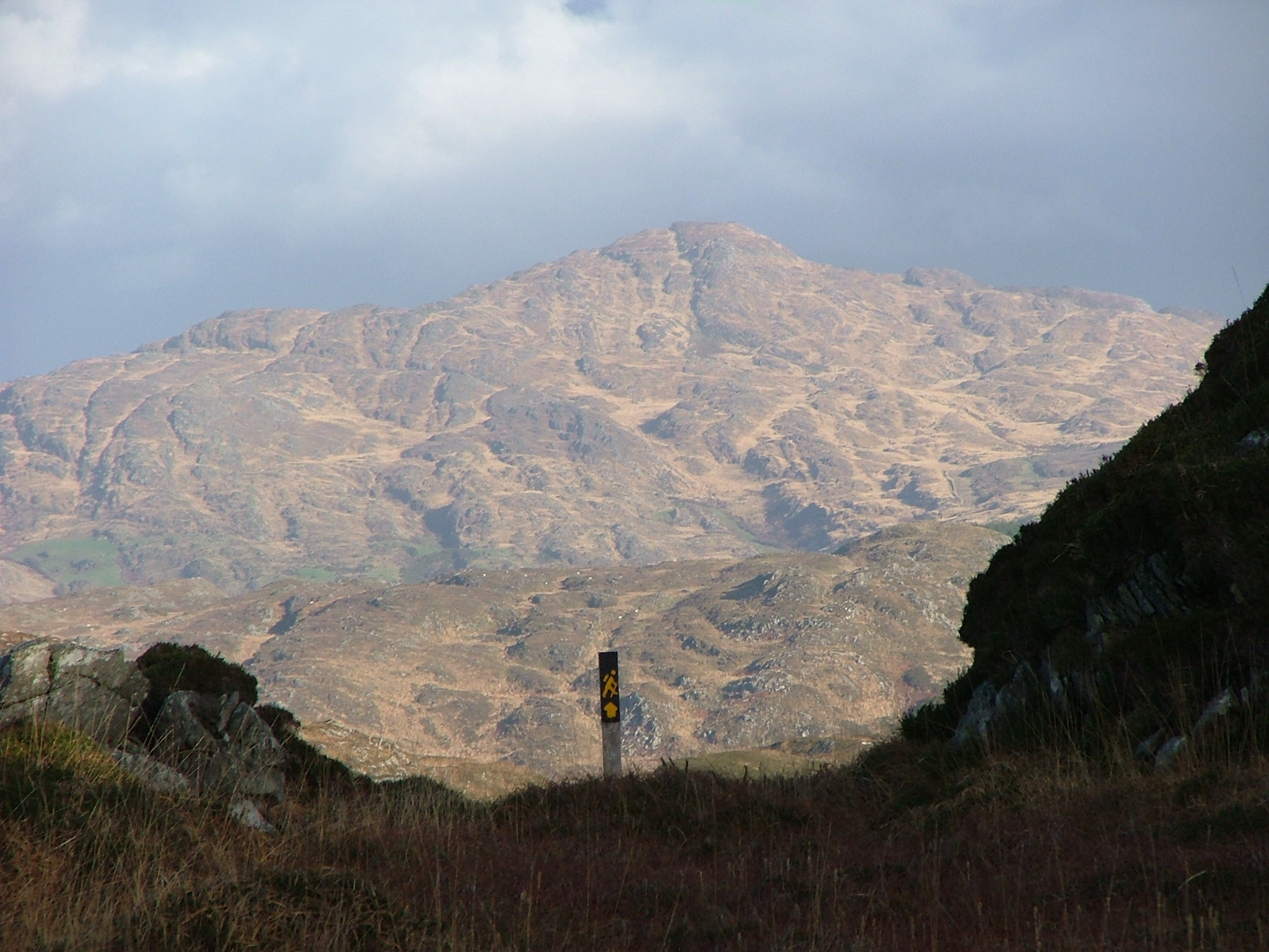 Photo taken at the end of January on Sheeps Head Way, near Bantry in Co. Cork, Ireland